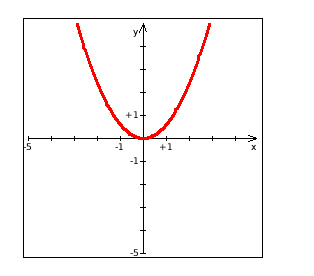 The function f ′ ( x ) = 3 5 x 2 {\displaystyle f'(x)={\frac {3}{5 x^{2 , the first derivative of File:Tweede afgeleide vb1.png.